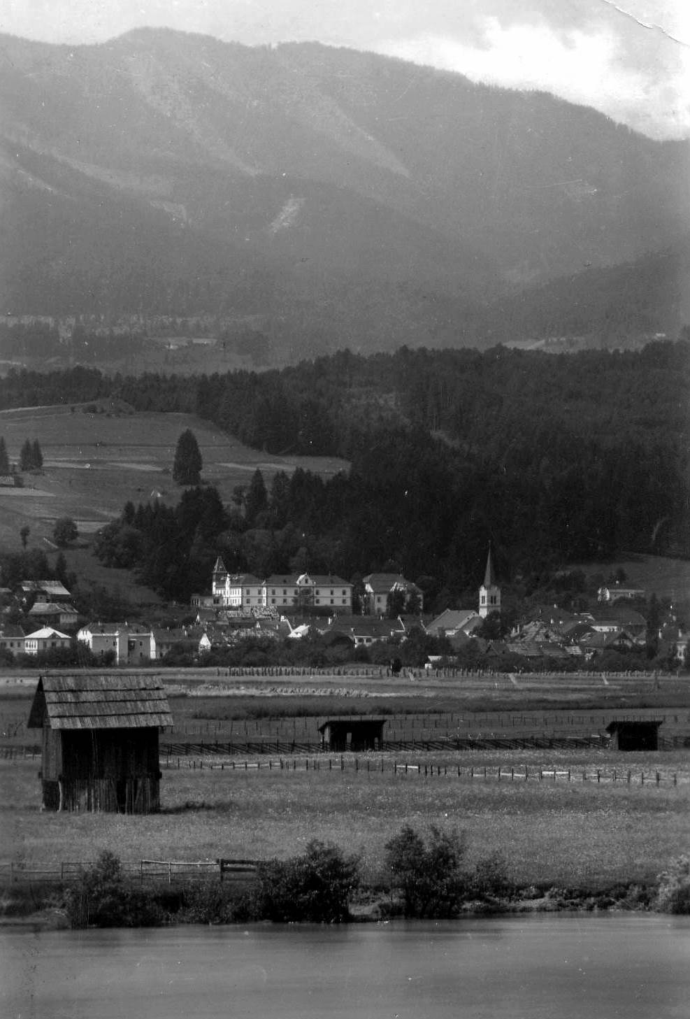 Paternion around 1914 district Villach-Land in Carinthia / Austria / EU. Postcard. View towards south.